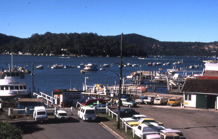 brooklyn, australia